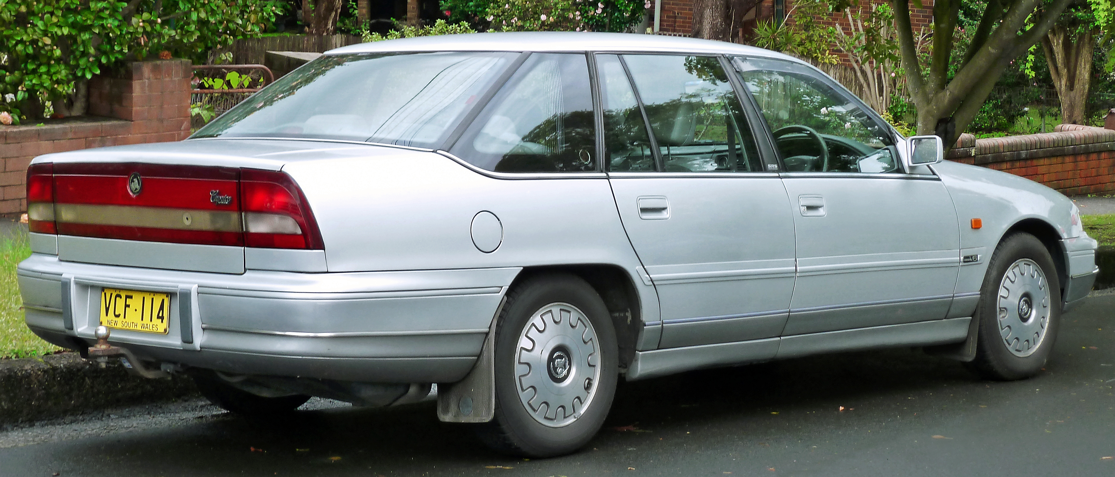 1995–1996 Holden VS Caprice sedan. Photographed in Gordon, New South Wales, Australia.